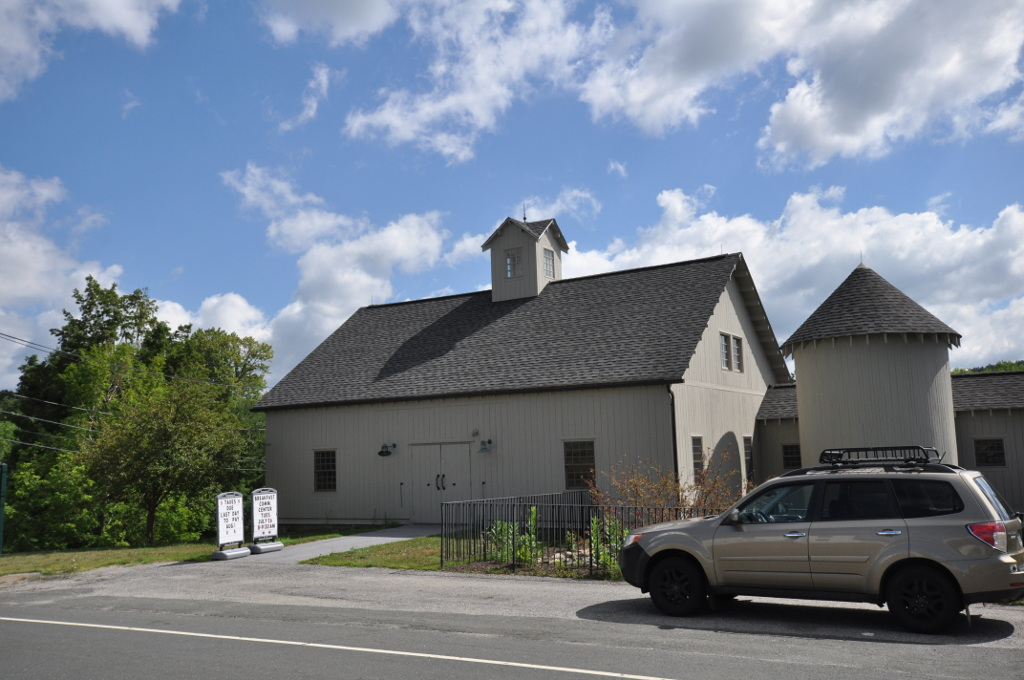 Colebrook Center Historic District, Colebrook, Connecticut. Town Hall.